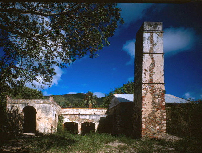 Reef Bay sugar factory on St. John, United States Virgin Islands.